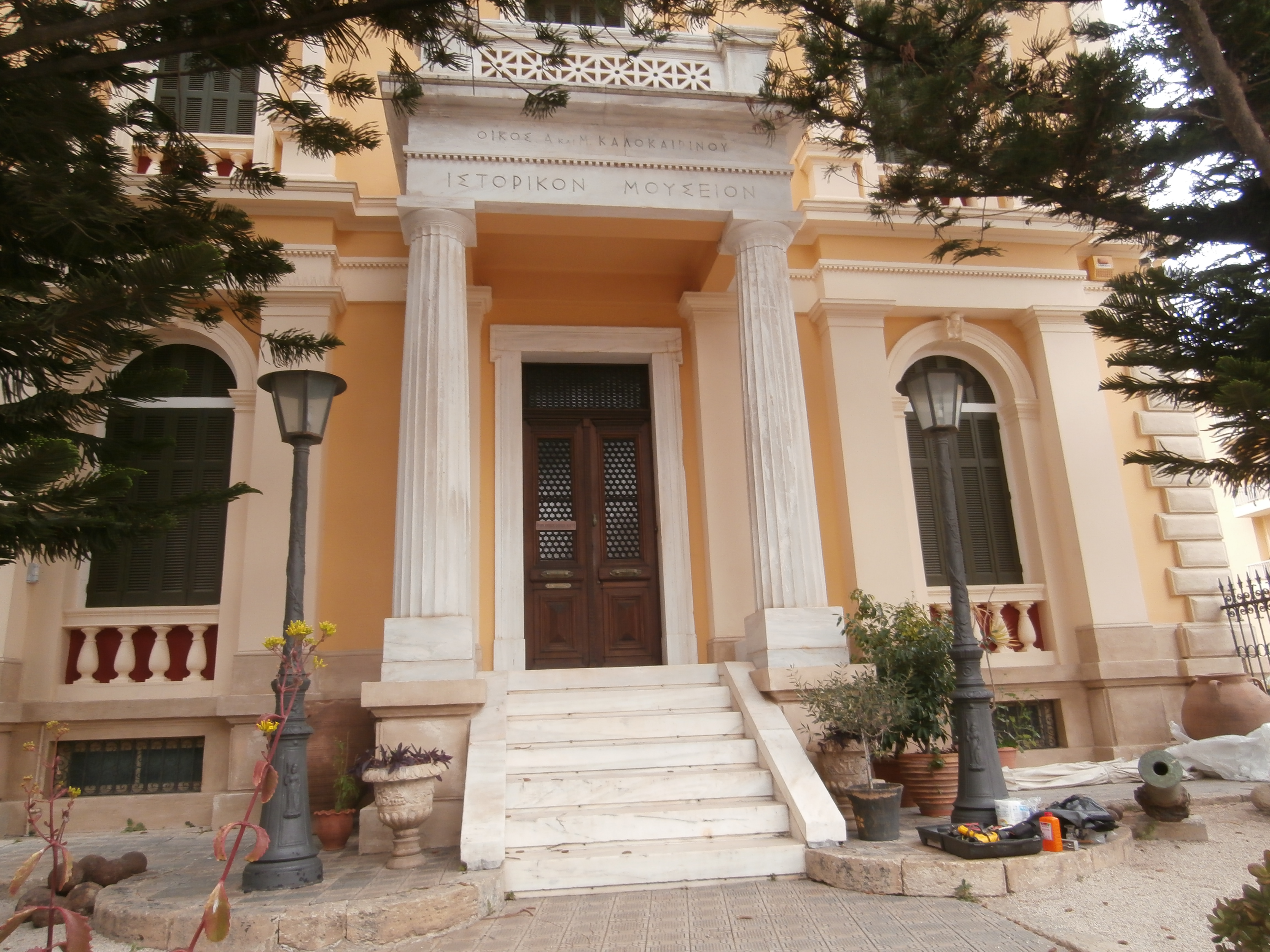 The old entrance of Historical Museum of Crete, at Kalokairinos mansion